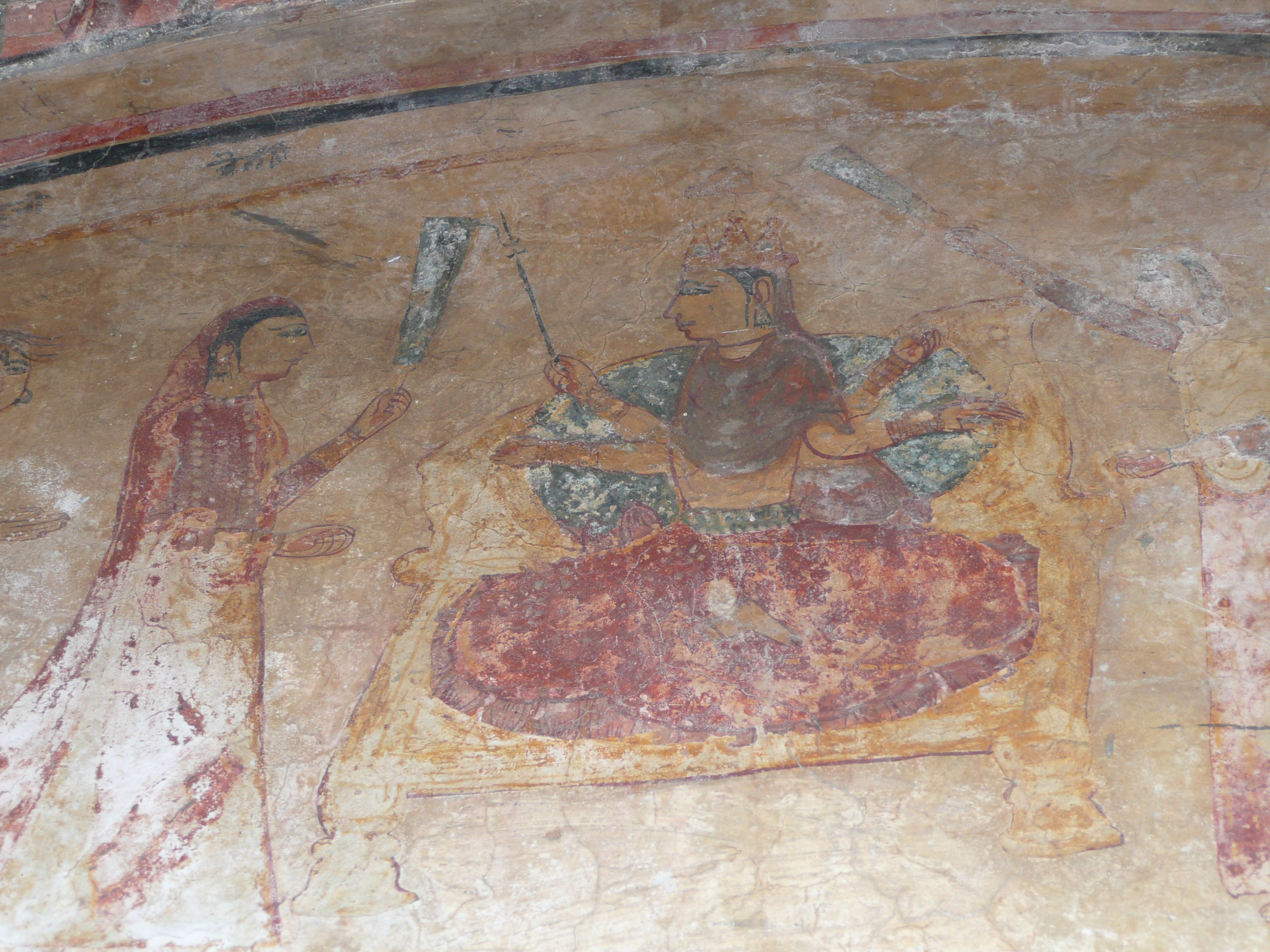 Ancient Shiva Mandir Painting on walls and roofs made from original colours at Tandon Mohalla in Payal, Ludhiana, Punjab, India